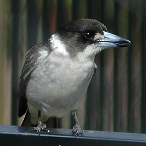 Bird, Grey Butcherbird, Cracticus torquatus